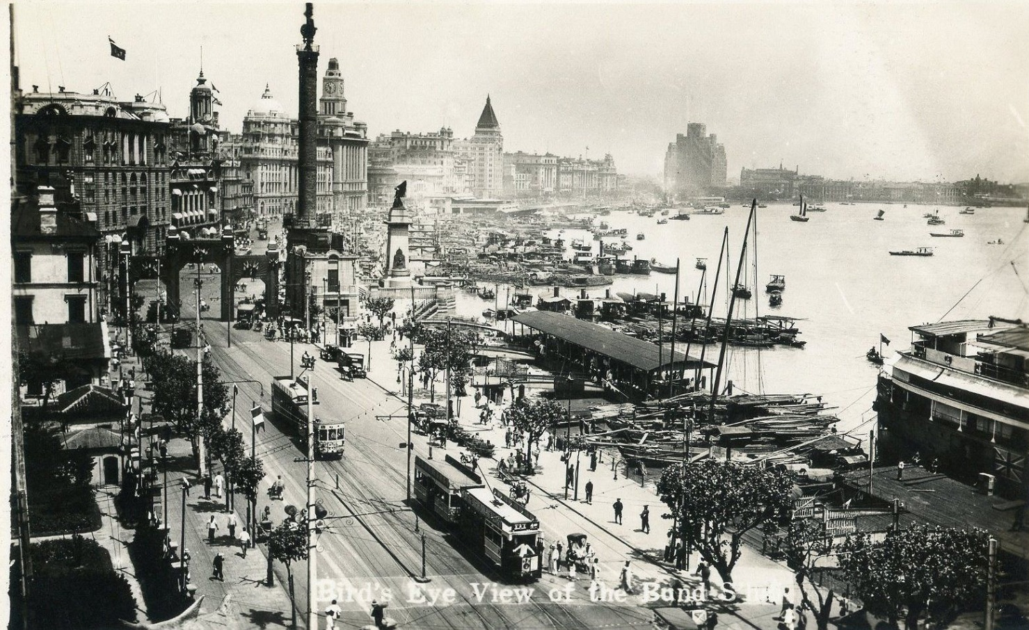 Shanghai's bund seen from the French Concession. The three arches on the left and the French signal tower separate the French Concession (foreground) from the International Settlement. Post card from the late 1920s.